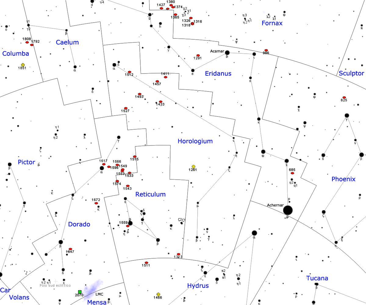 Map of Horologium and Reticulum